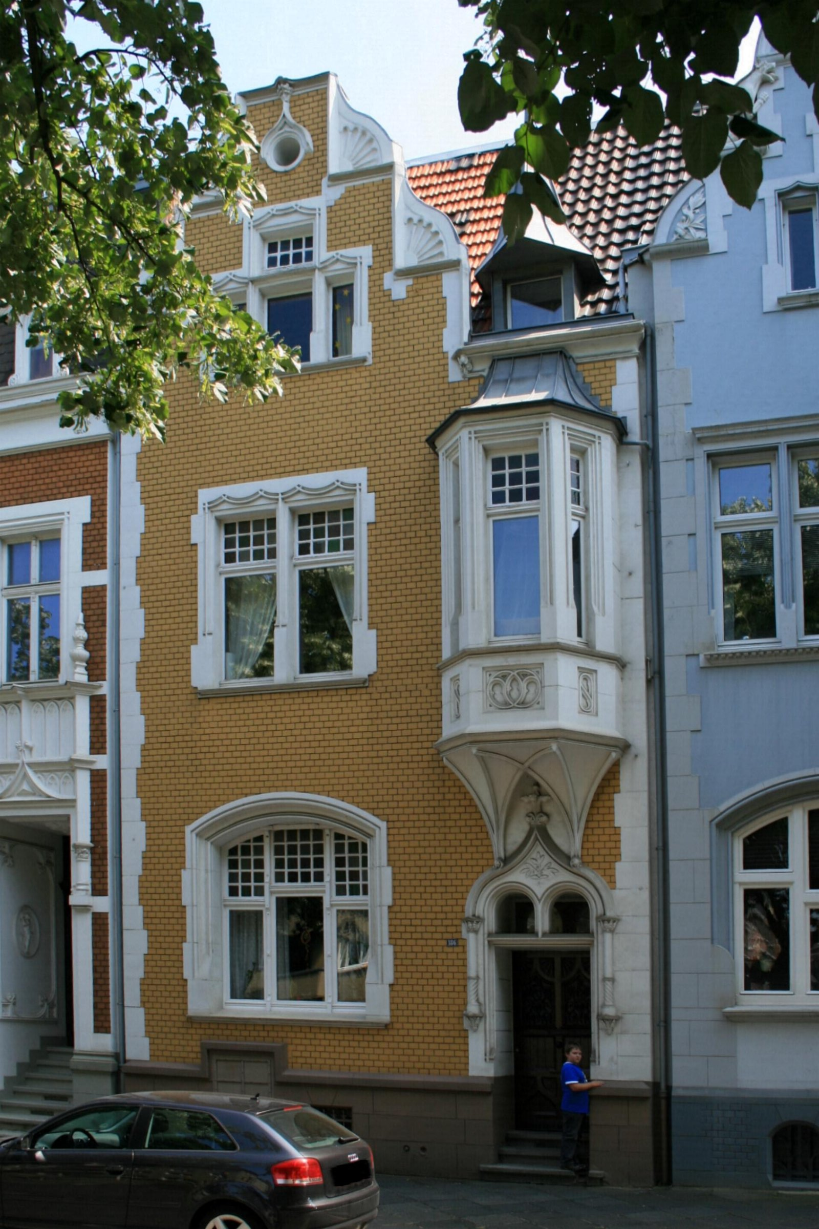 Cultural heritage monument No. B 110 in Mönchengladbach